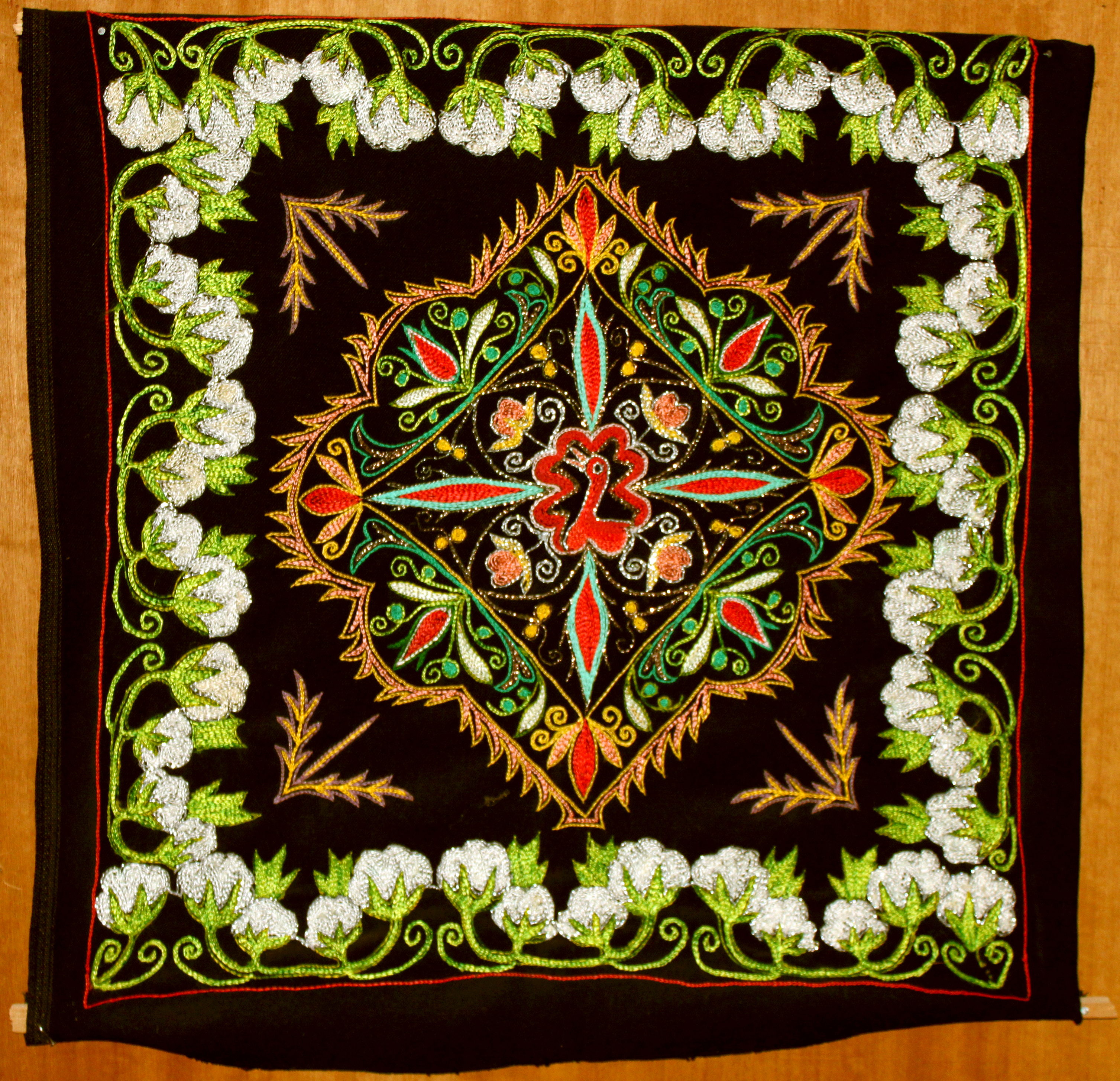 Təkəlduz